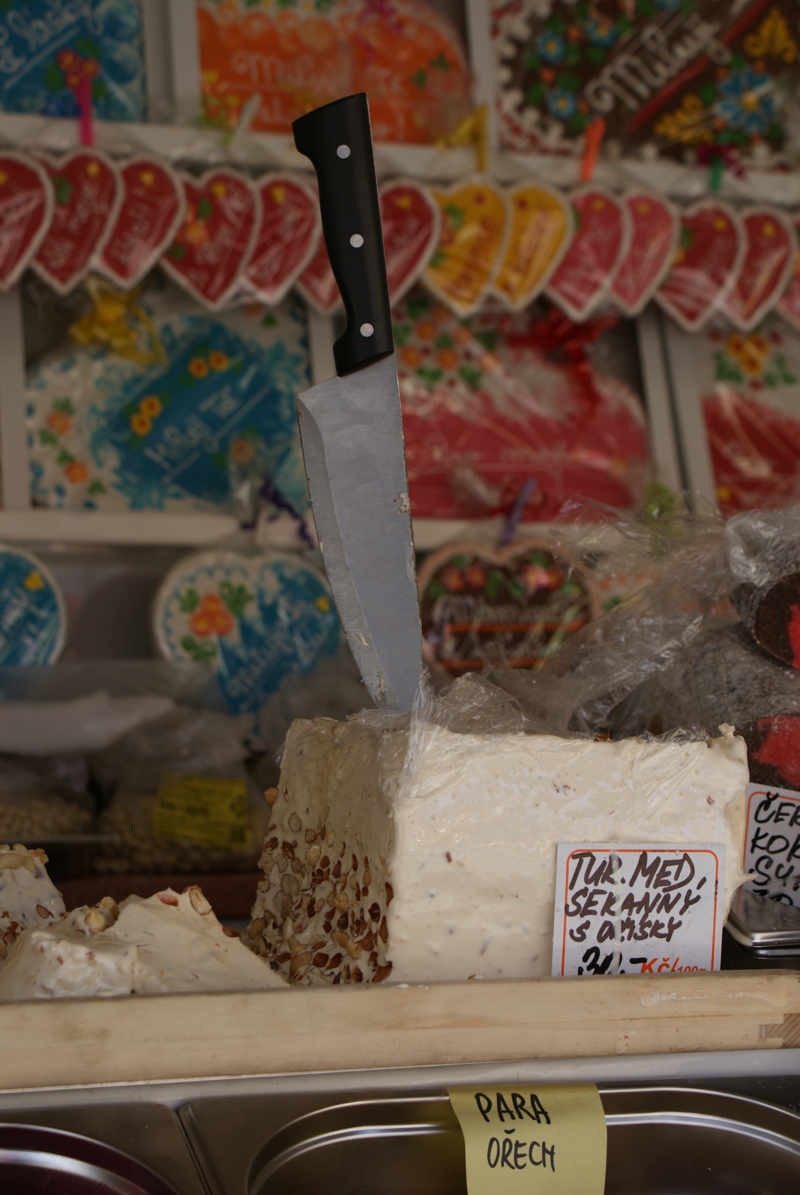 The Czech variant of Turrón or Torrone called Turecký med (Turkish honey)